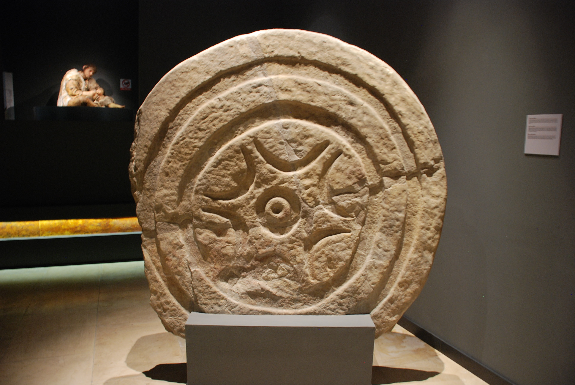 Museum of Prehistory and Archaeology of Cantabria. Obverse of the first stele from Lombera (Cantabria).